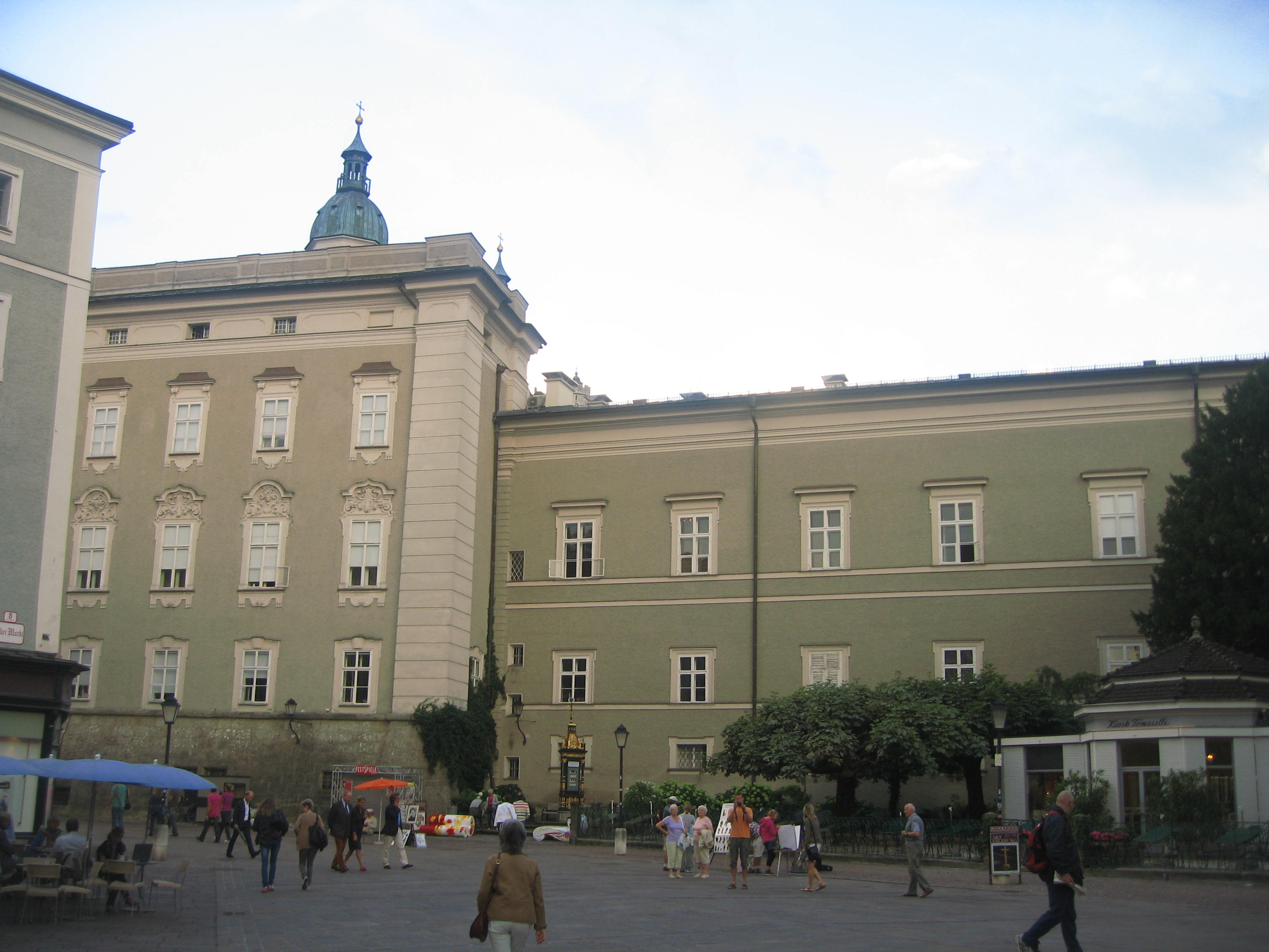 Alter Markt Salzburg